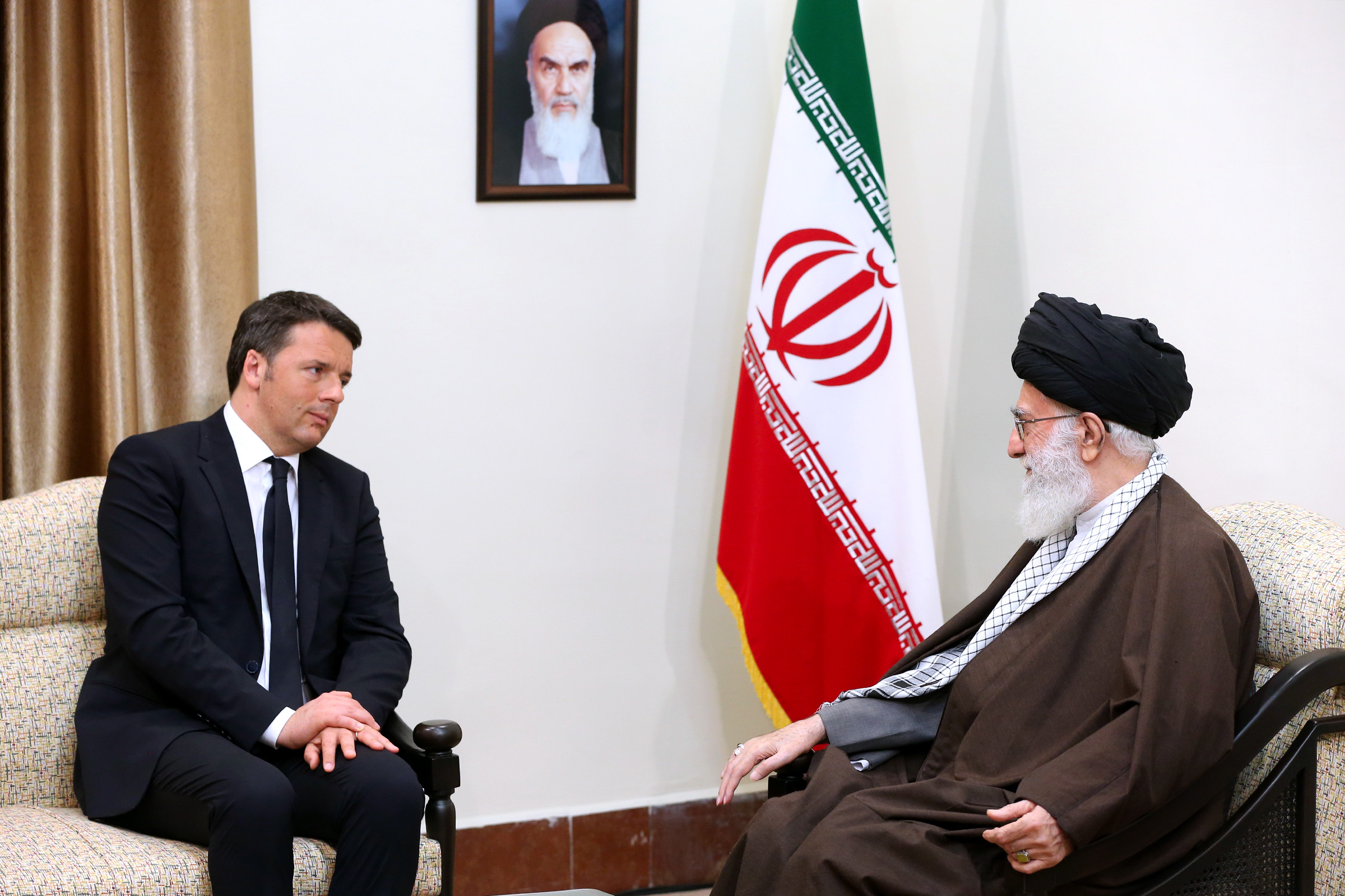 Matteo Renzi, the Prime Minister of Italy and his entourage met with Ali Khamenei, the Supreme Leader of Iran.